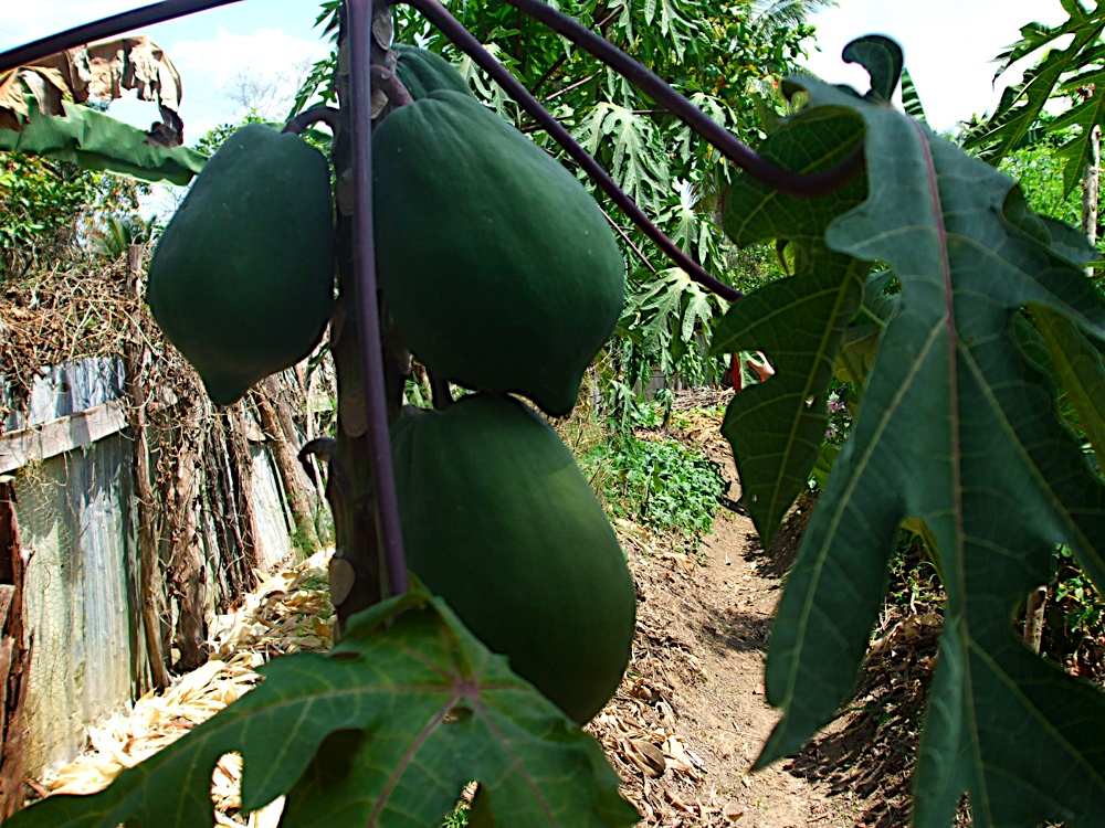 Papaya ripening on a tree in Belize